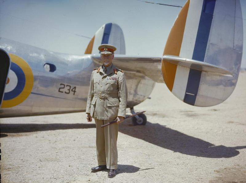 Field Marshal Jan Smuts, Premier of South Africa and Supreme Commander of the Union Defences Field Marshal Smuts standing in front of the aircraft in which he made his flying visits. It was an ex-South African Airways Lockheed Lodestar, which retained its natural metal finish when it became No 234 of the South African Air Force.